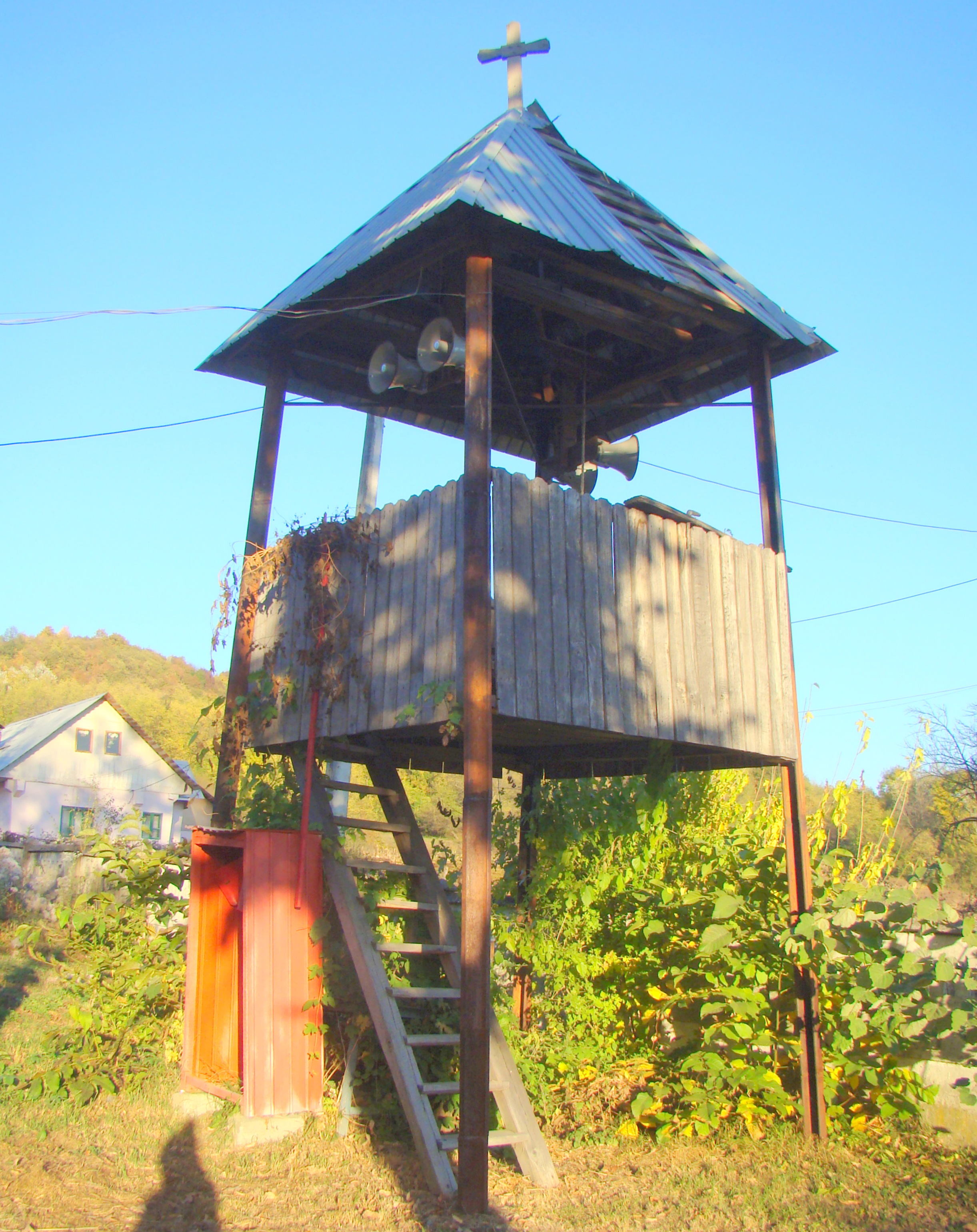 Wooden church in Slivilești, Gorj county, Romania